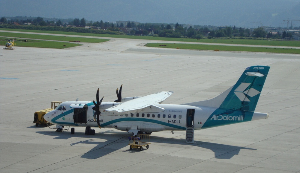 ATR 42-500 from Air Dolomiti at Klagenfurt Airport (AT)